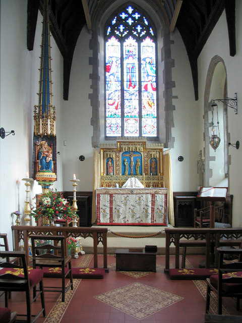 Slipper Chapel, Houghton St Giles, Norfolk - East end